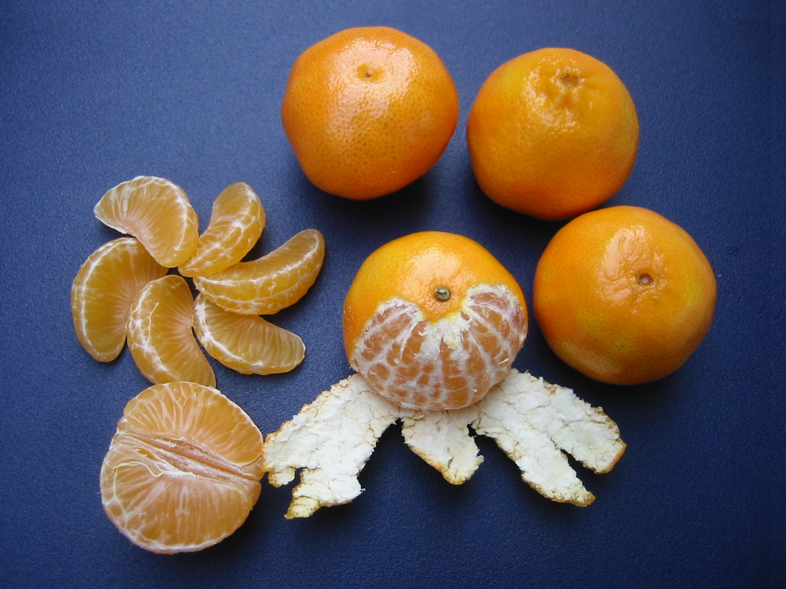 Clementines citrus are very sweet, easy to peel with a good flavor. Pictured here whole, slightly unpeeled, halved and sectioned.